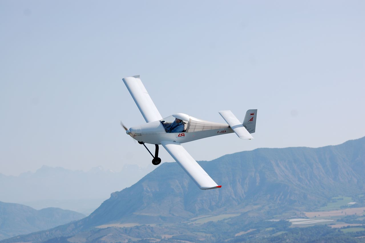 air-to-air mc30e inflight picture